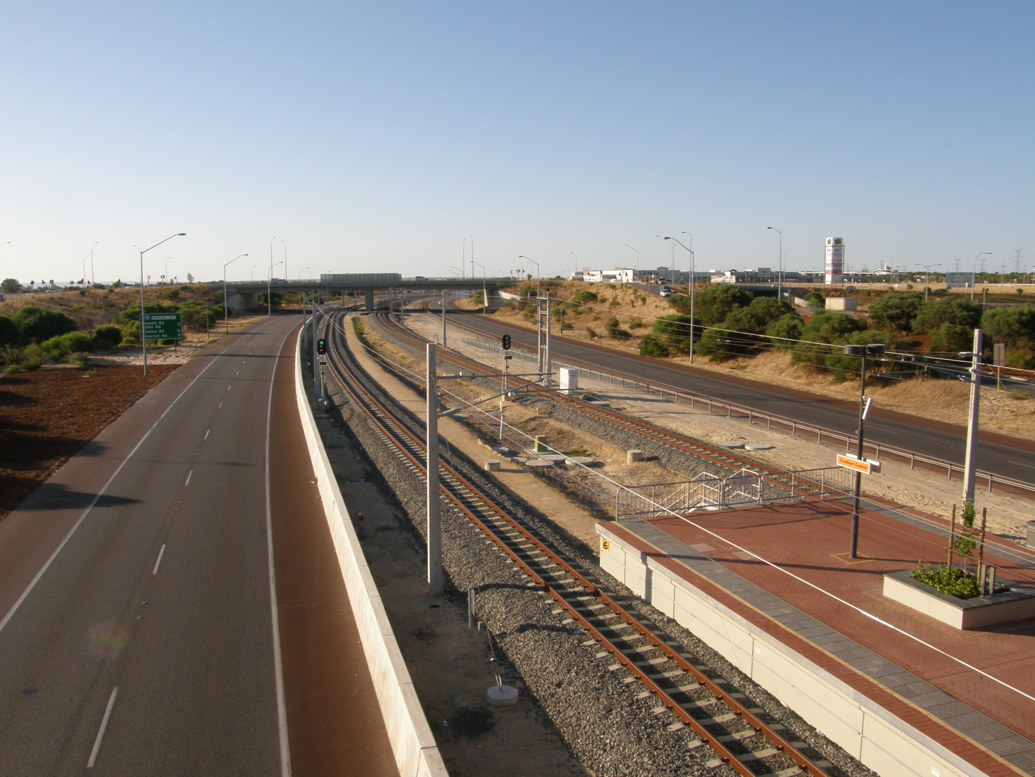 Cockburn Central railway station, Perth, facing south.